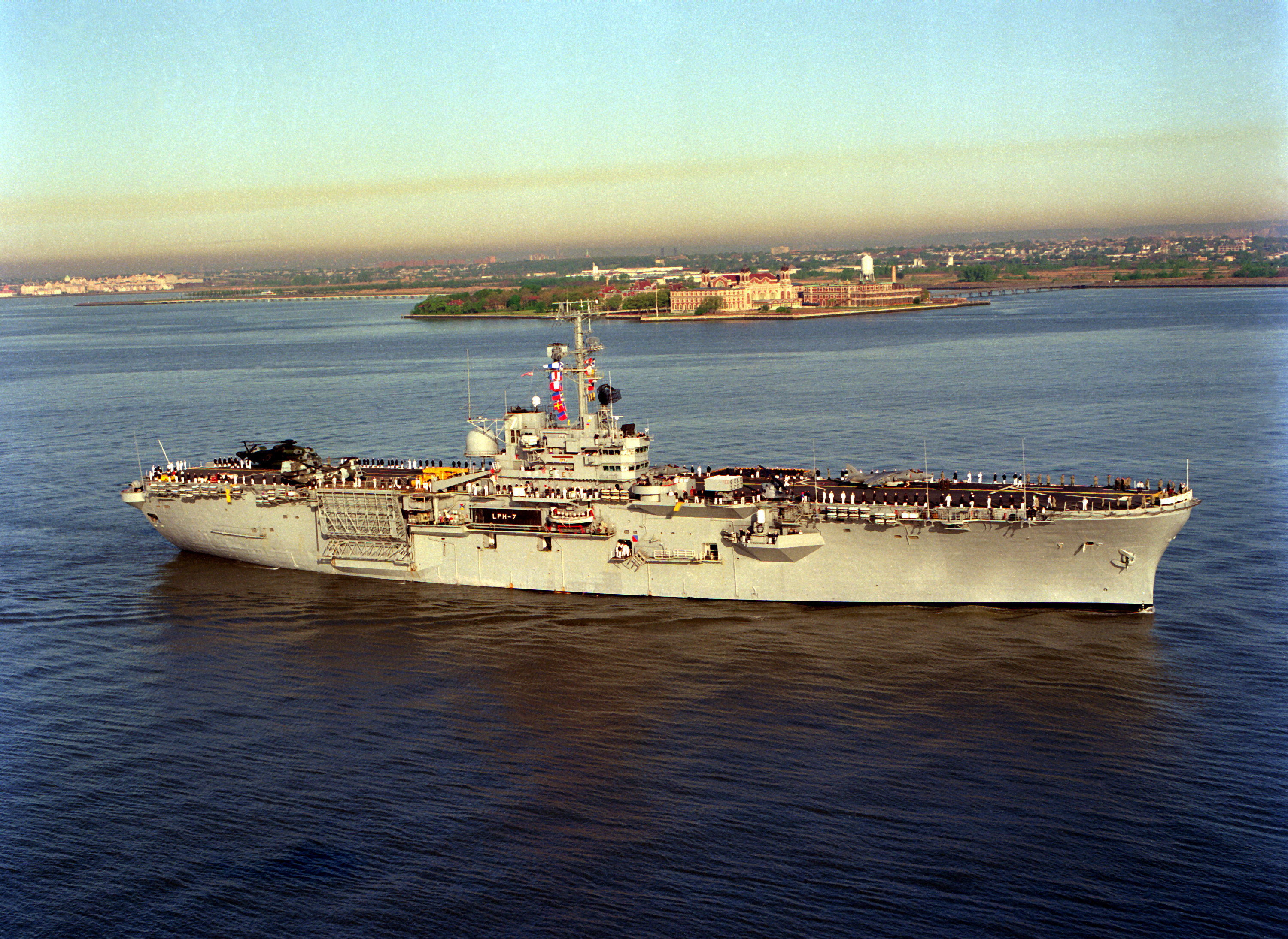 An aerial starboard side view of the amphibious ship USS Guadalcanal (LPH-7) passing the Ellis Island Memorial Immigration Center as the ship arrives at New York City for Fleet Week '92.